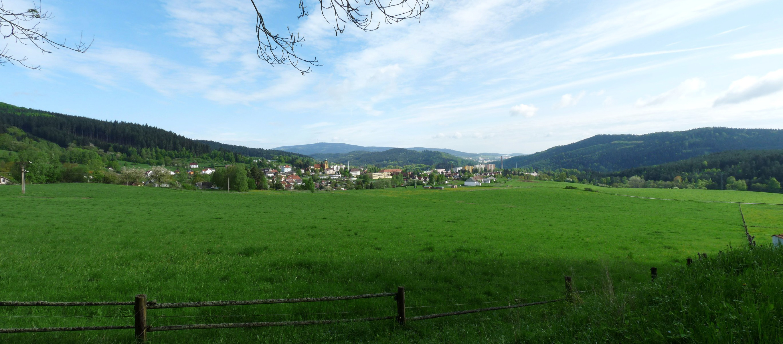 Větřní, Český Krumlov District, South Bohemian Region, Czech Republic as seen from the south.